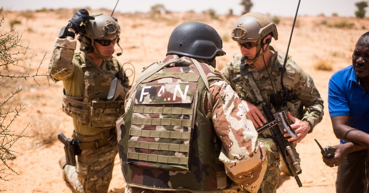 American special forces training along side Nigerien soldiers.